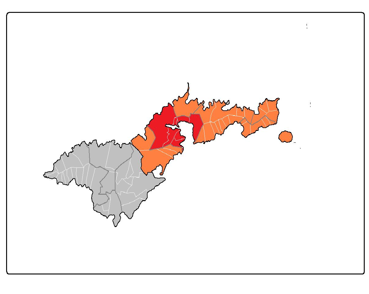 Locator map of American Samoa: Ma'Oputasi county